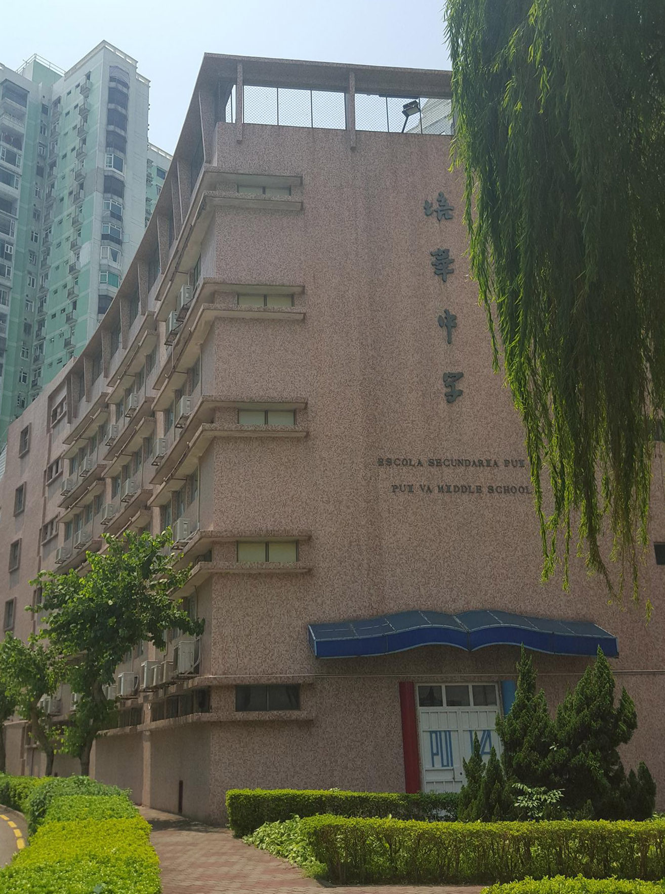 Pui Va Middle School